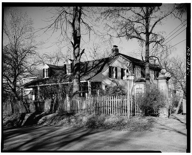 Photograph of Casa Alvarez in Florissant, Missouri; Piaget-van Ravenswaay Survey: Paul Piaget, ca. 1950; MO-1815-1 EXTERIOR, OBLIQUE VIEW OF SIDE AND FRONT